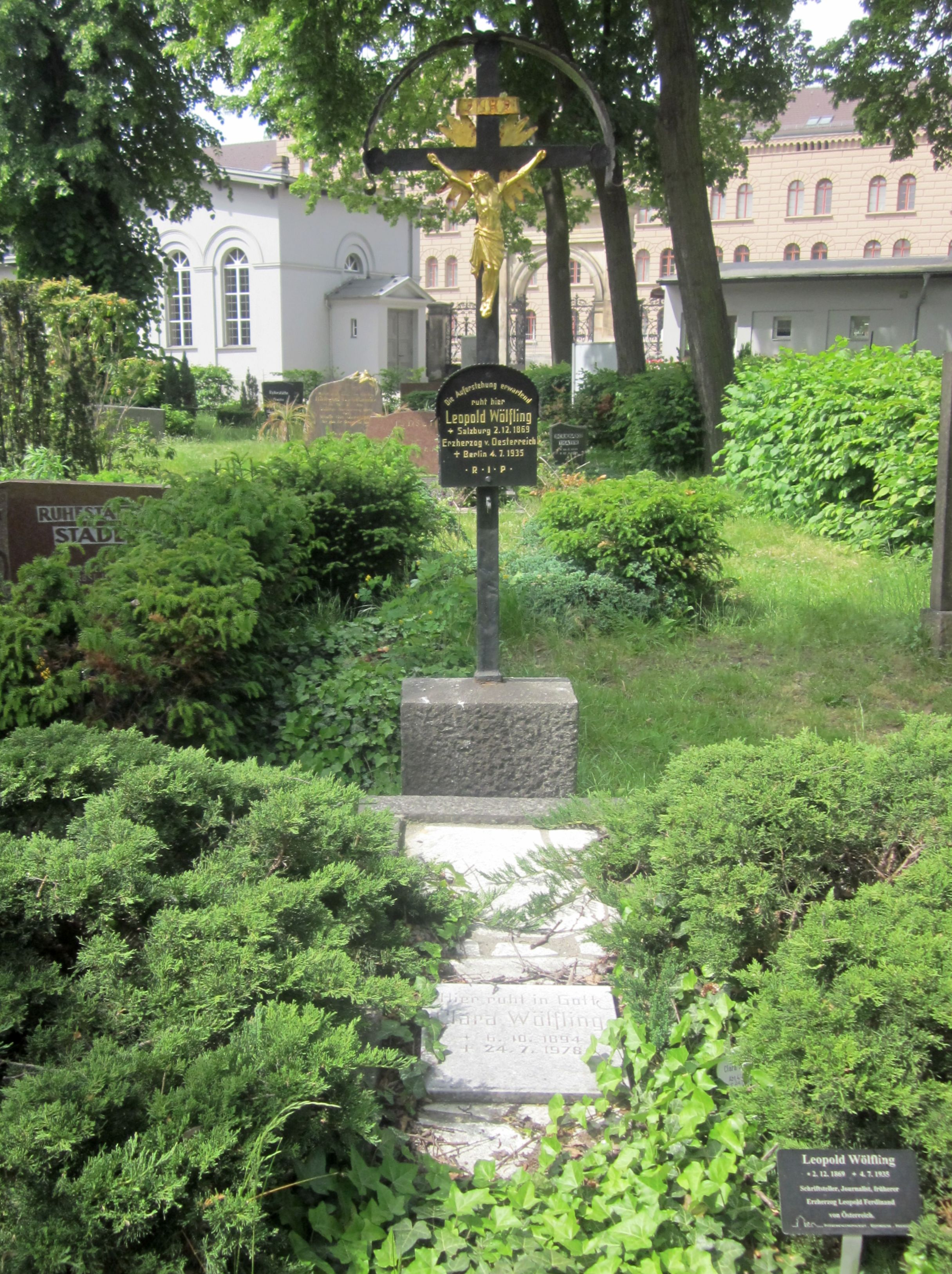 Grave of Leopold Wölfling (1868-1935) on the Cemetery III of the Jerusalem and New Church congregation at Mehringdamm 21 in Berlin-Kreuzberg (Abt. 1/1). The former Archduke Leopold Ferdinand of Austria and son of the last Grand Duke of Tuscany Ferdinand IV had renounced his title in 1902 and adopted the name Wölfling due to his relationship with the daughter of a mailman who worked as a prostitute (he later married her). He shares the grave with his third wife Clara, née Pawlowski (1894-1978).